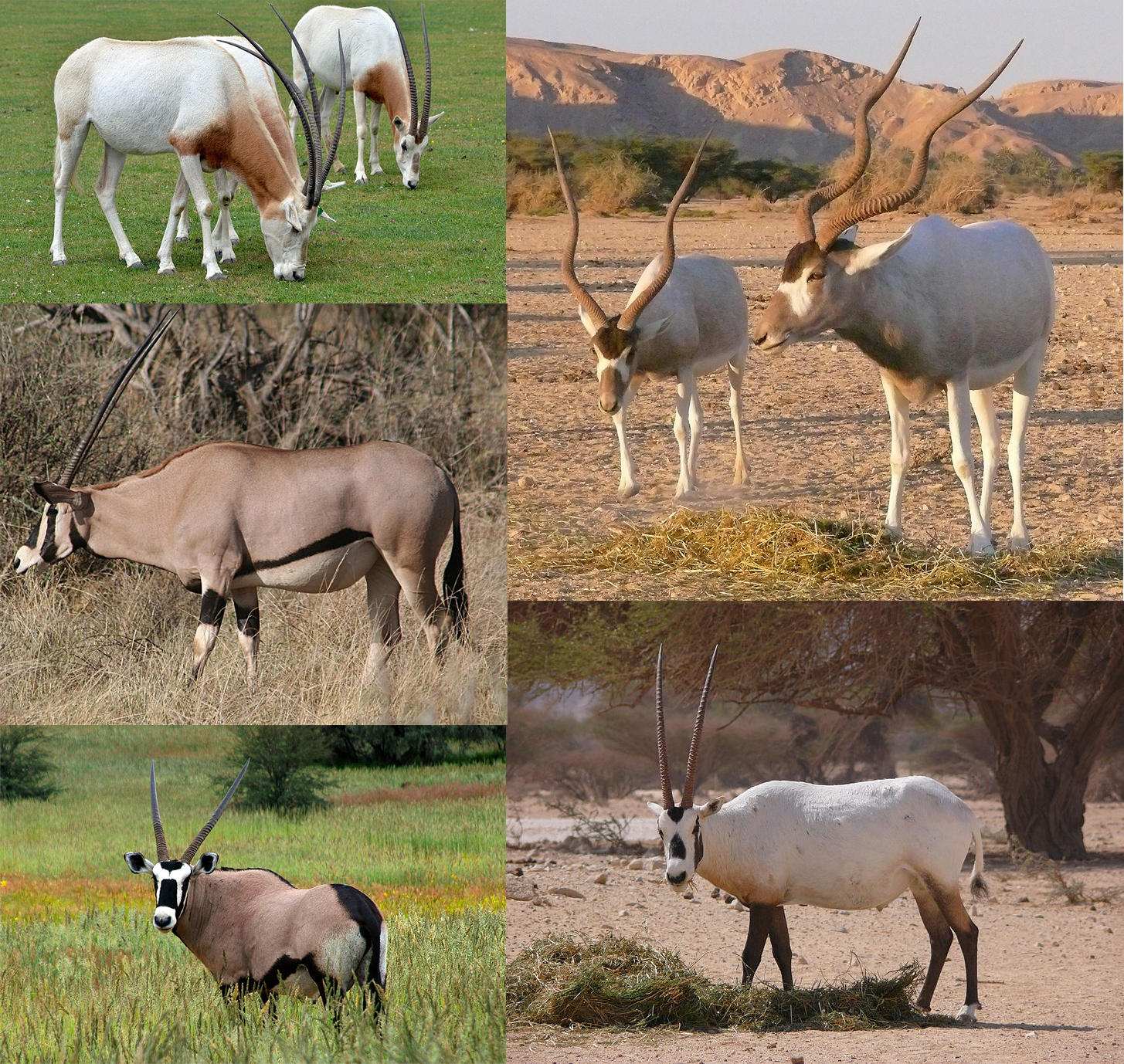 Hippotraginae, clockwise from upper-right: Addax nasomaculatus, Oryx leucoryx, Oryx gazella, Oryx beisa, Oryx dammah